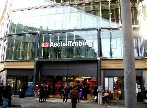 Here we see the newly built Central Station in Aschaffenburg.